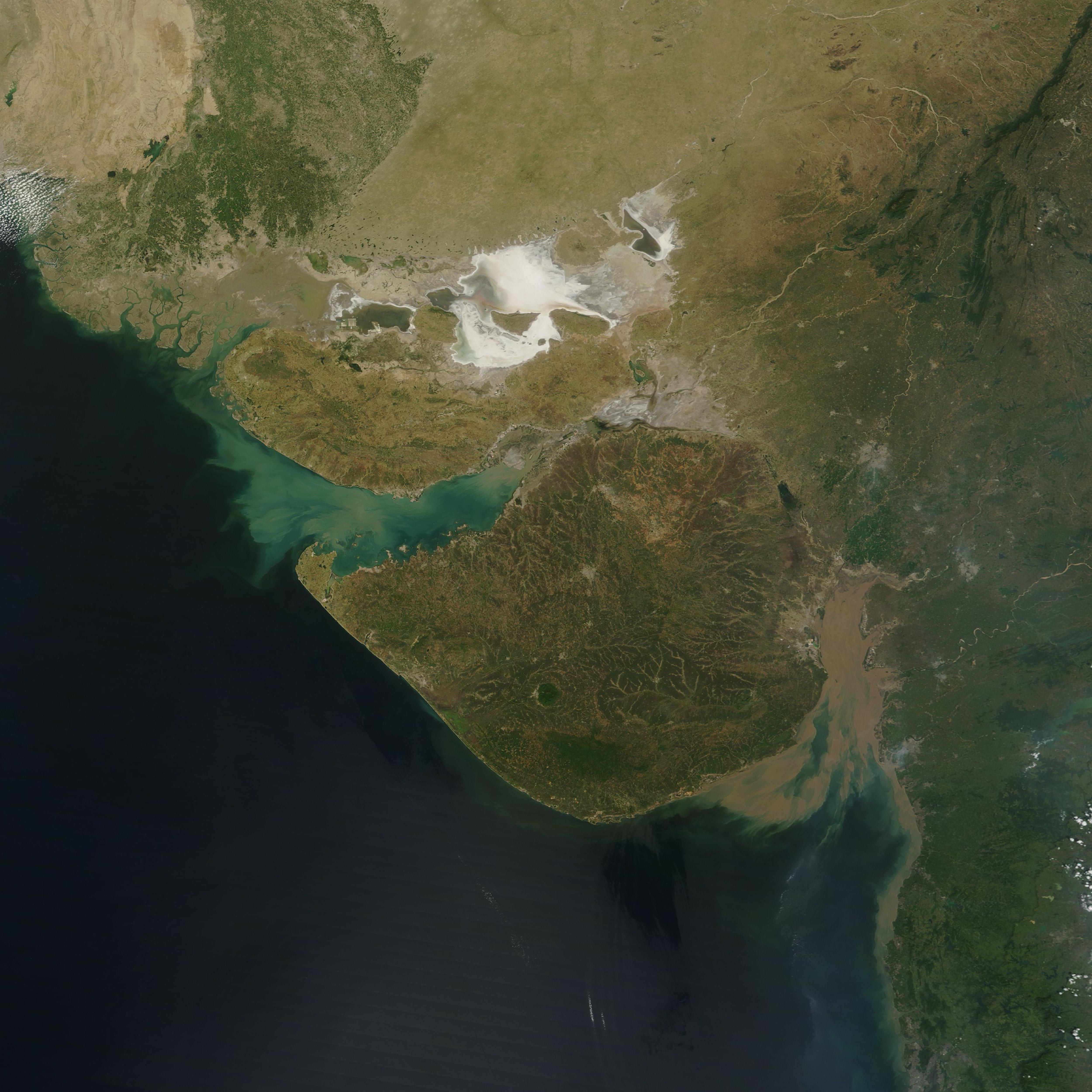 An image taken by NASA of Gujarat, India.